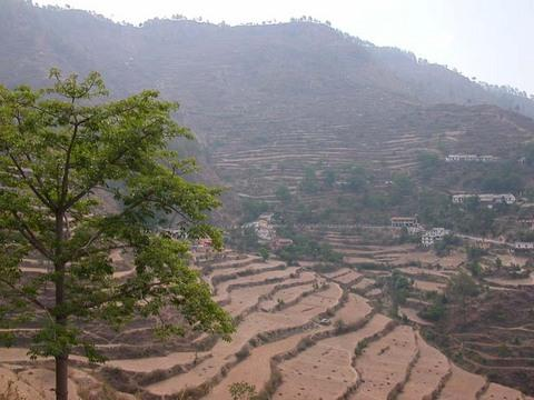 Ranikhet